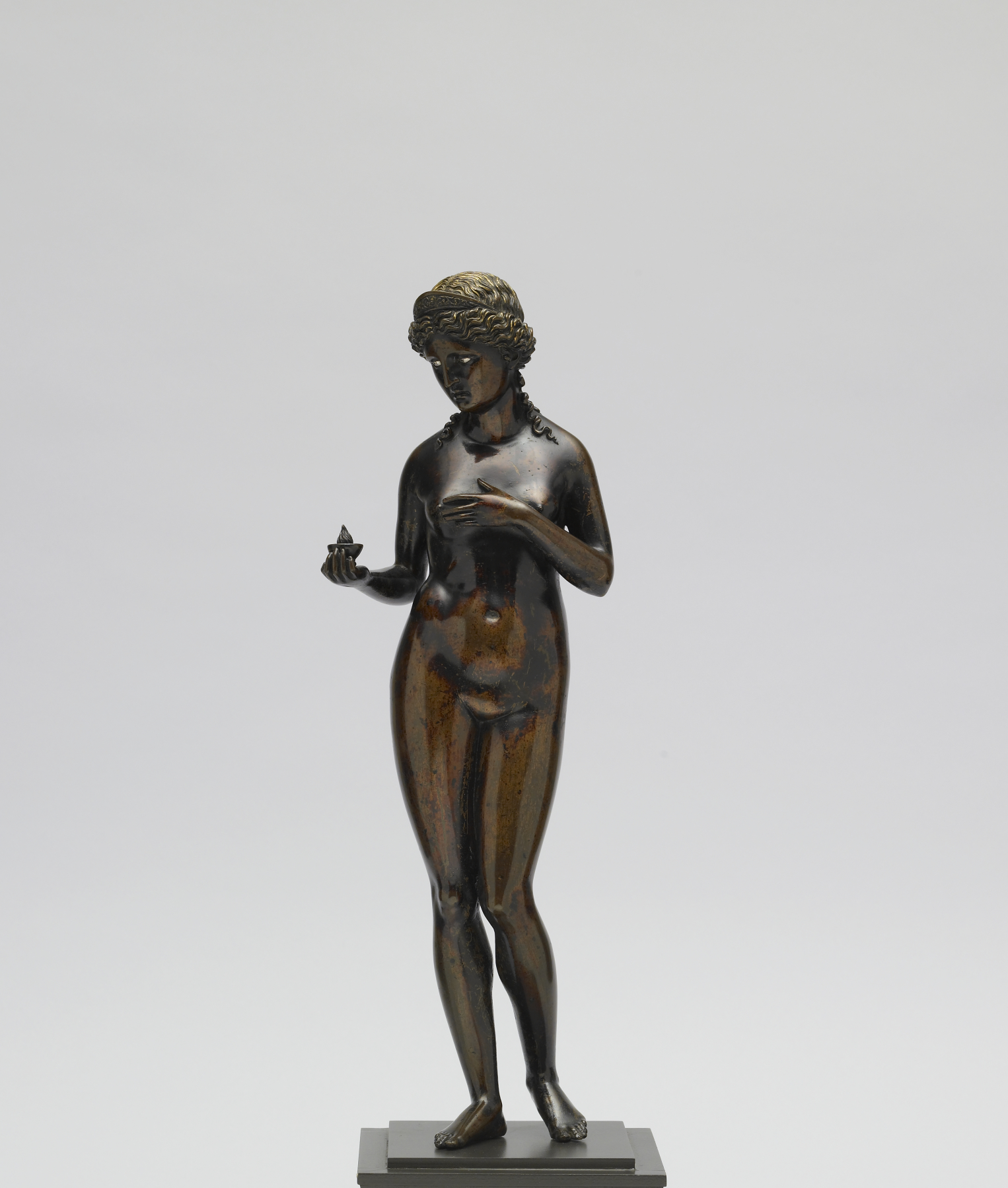 The artist's preoccupation with antiquity earned him his nickname. His patrons, the Gonzaga family of Mantua, sent him to Rome to study ancient sculpture so that he would be able to seek out antiquities for purchase, discern forgeries, and produce small versions in bronze of famous statues. The last are usually creative interpretations, which he called his "antiquities." This fine Venus may be loosely based on the same unrestored torso of a Roman copy after a Greek original as "Venus Pudica." Typical of Antico's style are the highly finished surface, dark patina, touches of gilding in the hair, and silver inlay for the eyes, a detail found in ancient bronzes. This Venus represents Spiritual Love, expressed through her modest pose, her lamp of celestial fire, and her crown of Virtue. Around 1520, Antico was creating pieces for his major patron in Mantua, the marchioness Isabella d'Este, whose refined tastes are here exemplified.